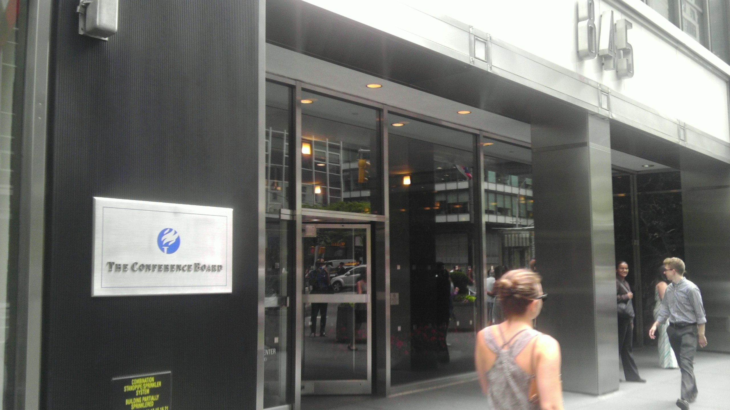 Looking south at The Conference Board's entrance to 845 Third Avenue. ZIP 10024.